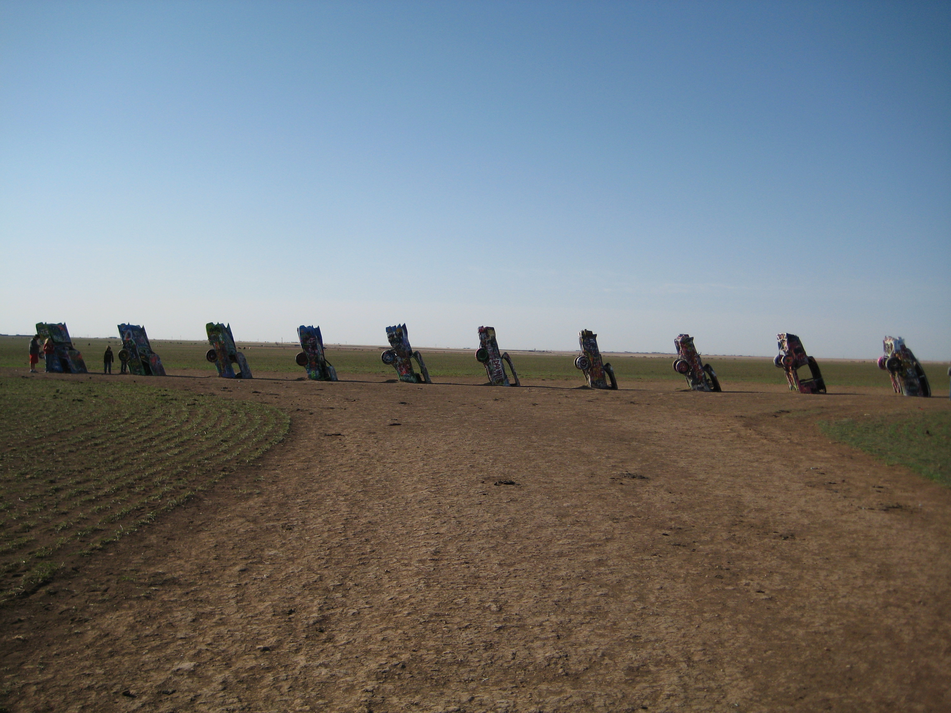 "The Cadillac Ranch just west of Amarillo is a famous Route 66 landmark. Built up in 1974 by said to be eccentric but brilliant millionaire Stanley Marsh 3 and The Ant Farm, this line of old Cadillacs are buried nose first into the ground. The angle of the cars are also reputed to be the same as the ancient pyramids at Cheops. The Cadillacs were moved further west in 1997 from its original location due to growth from nearby Amarillo. The Cadillac Ranch is another of the must see sights off the Mother Road." Website